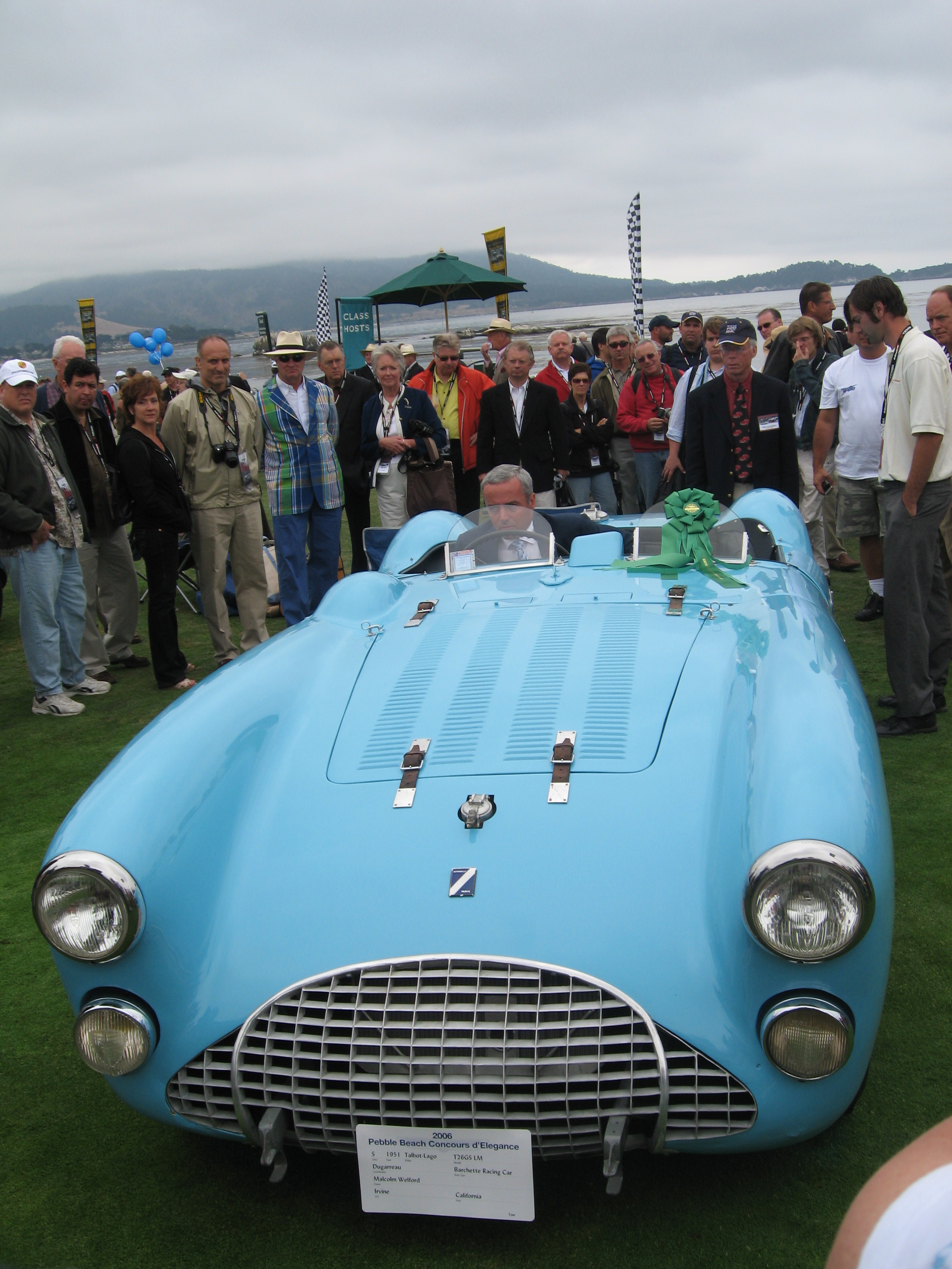 1951 Talbot-Lago T26GS LM Barchette by DugarreauIMG_3989